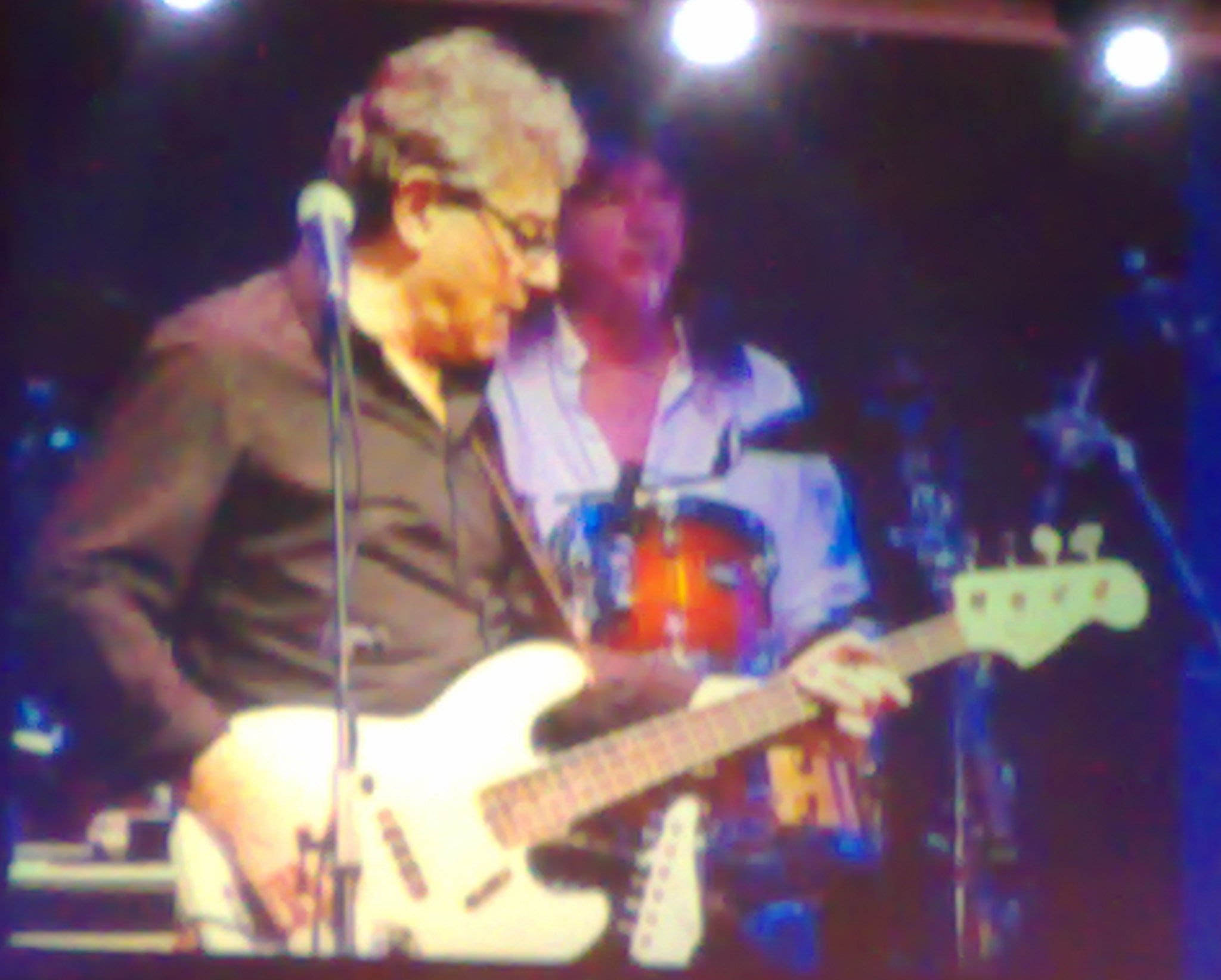 Graham Gouldman in the Forum Palace in Vilnius, Lithuania